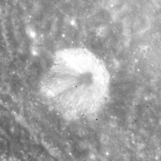 Abbot crater, on the moon. Rotated so that north is at top.